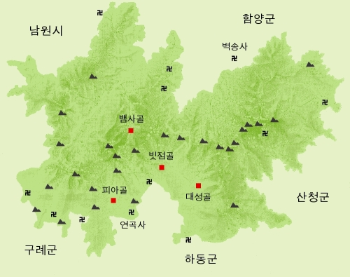 Jirisan, South Korea (circa 1951) 빨치산 투쟁과 관련된 지리산 주요 지점